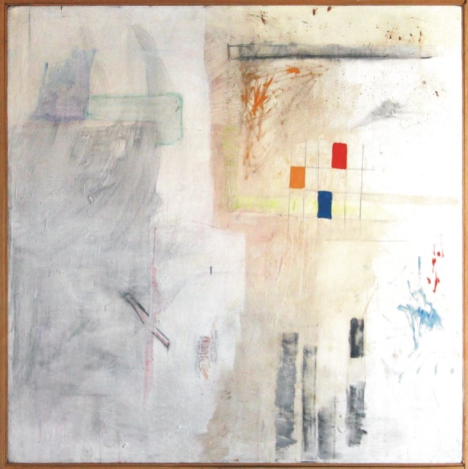 An abstract painting by the artist Matuschka, completed at the age of 21. A personal favorite of the artist. 48"x48"